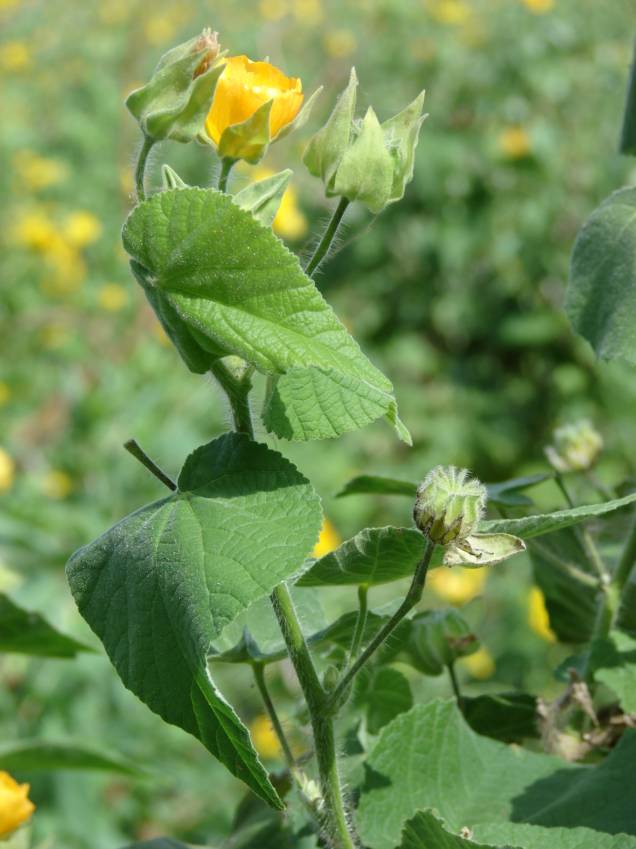 Abutilon grandifolium (flower and leaves). Location: Midway Atoll, Radar hill field Sand Island